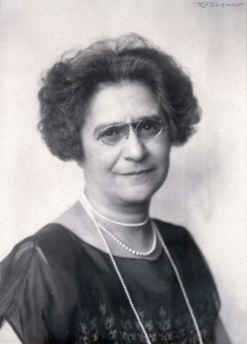 Emmy Belinfante-Belinfante (1875-1944), Dutch author of childrens books and journalist